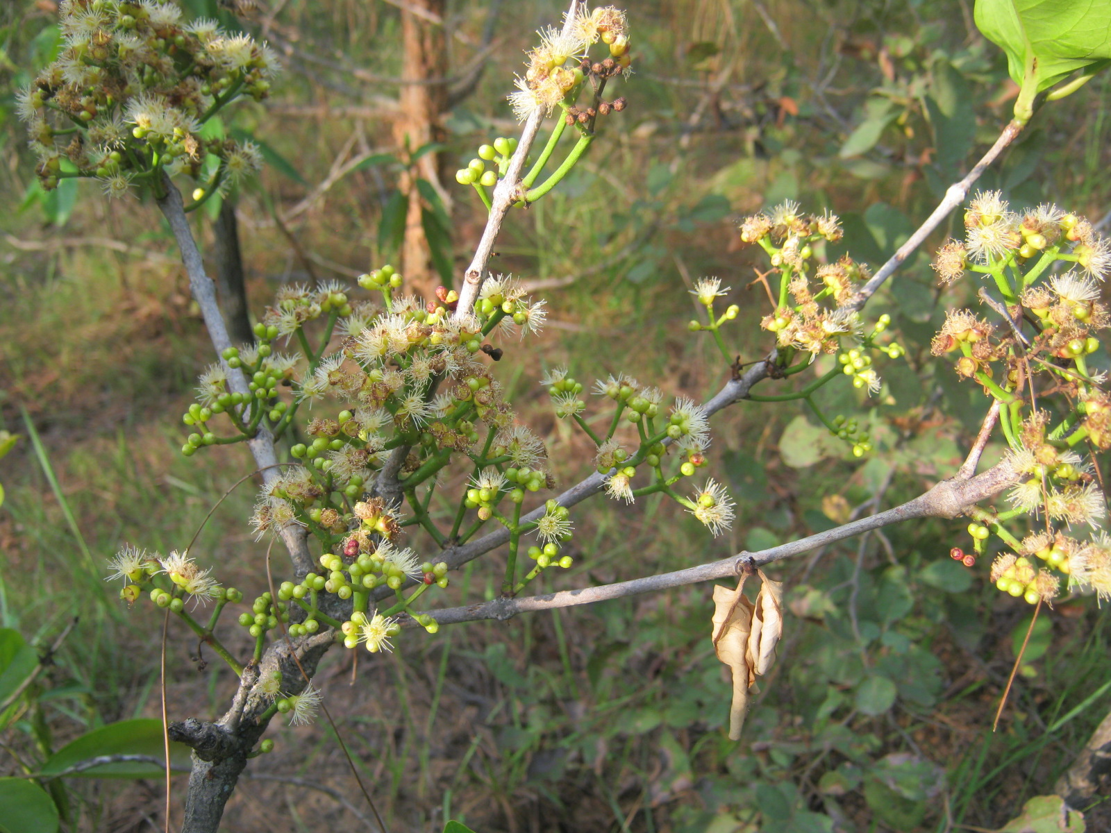 Flower of Cleistocalyx operculatus in a forest of Panchkhal valley in Nepal.